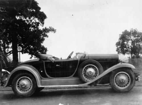 1929-30 Willys-Knight Great Six roadster. 'The Willys-Knight Great Six is the most beautiful and luxurious automobile that Willys-Overland's designers have ever created' (from a Willys-Knight advertisment in 1929). This Amos Northup designed 'plaid sided' roadster was fully imported from the USA. The six cylinder Knight sleeve-valve engine provided effortless, smooth and extraordinarily quiet performance. In addition to the unique 'plaid' paintwork on the doors, this top of the range roadster featured a lockable compartment behind the front seats for the passenger's golf clubs. The windscreen and convertible top are shown in the folded position.